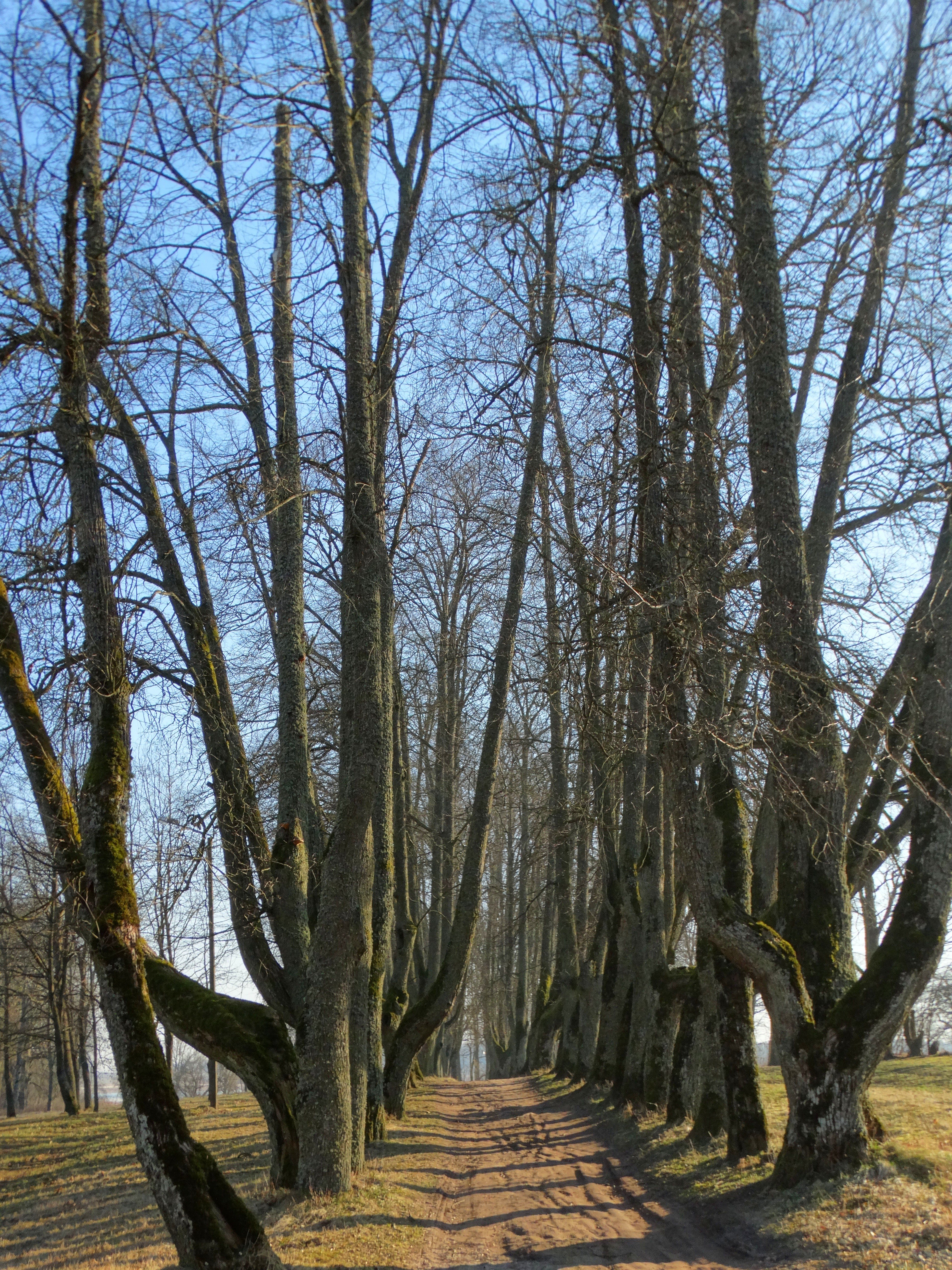 Paežeriai Linden Alley, Šiauliai district, Lithuania